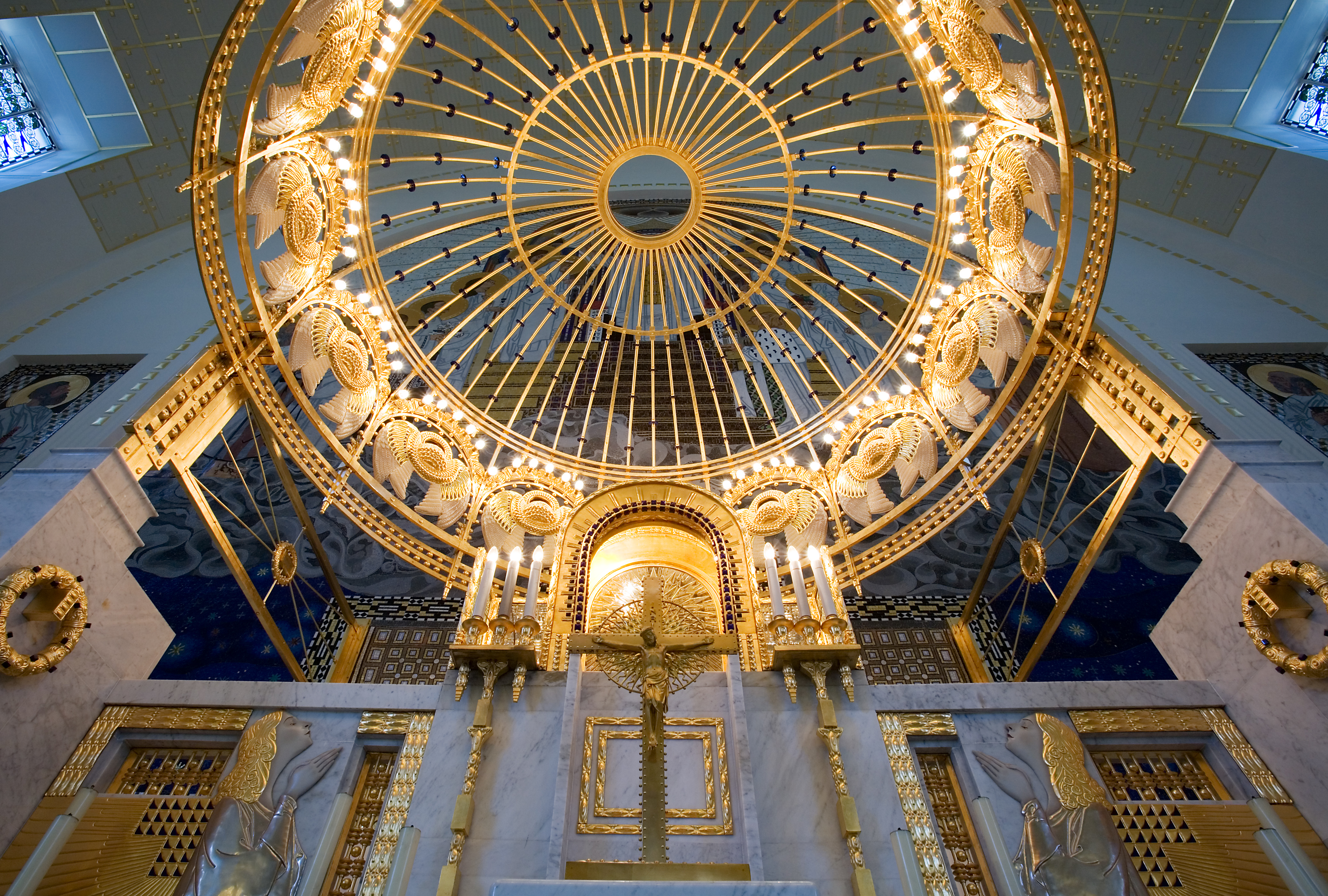 Otto Wagner's St Leopold Church, Vienna, Austria